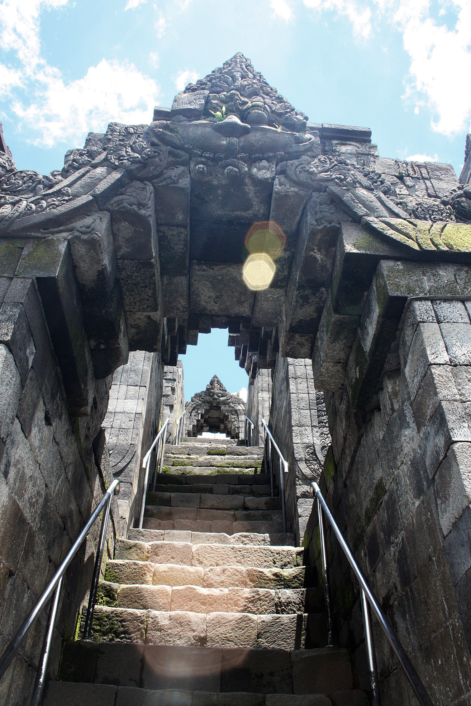 Lens flare at the Borobudur stairs and Kala arches entrance. Borobudur is the 8th century Buddhist monument took shape as a giant Mandala-mountain. The stairs took pilgrim from Kamadhatu (realm of desire}, through Rupadhatu (realm of forms and shapes), and finaly elevated to a higher spiritual plane of Arupadhatu (realm of formlesness). Central Java, Indonesia.